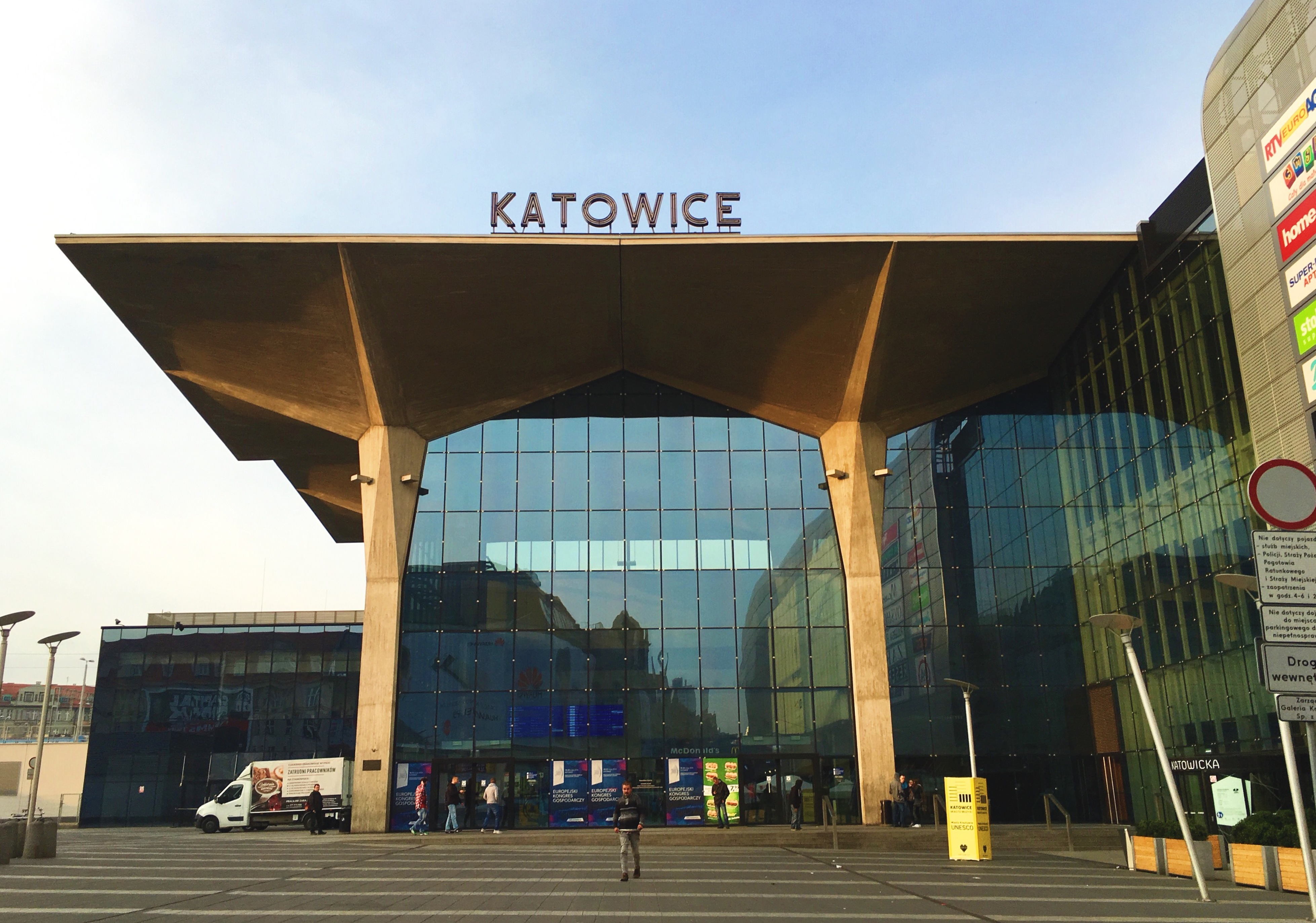 Front view of the Katowice, Poland train station, as seen at dusk.